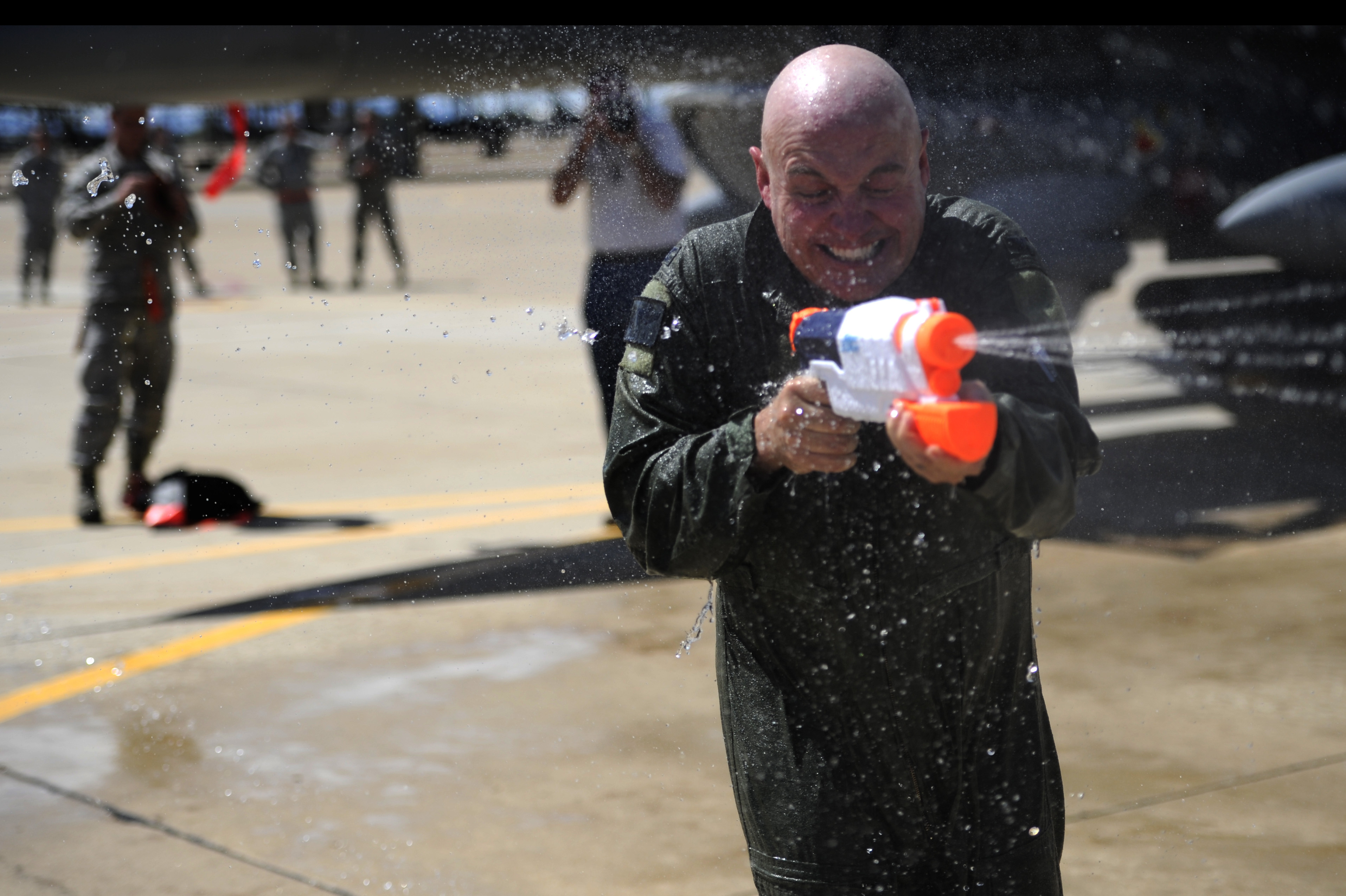 U.S. Air Force Col. Scott Long, commander 388th Fighter Wing, sprays his wife, Staci Long, with a water gun on his final flight as an Air Force airman at Hill Air Force Base, Utah, June 6, 2013. On the final flight of an Air Force career it is tradition to have a water gun battle upon the pilots exiting of their plane. (U.S. Air Force photo / Senior Airman Allen Stokes)